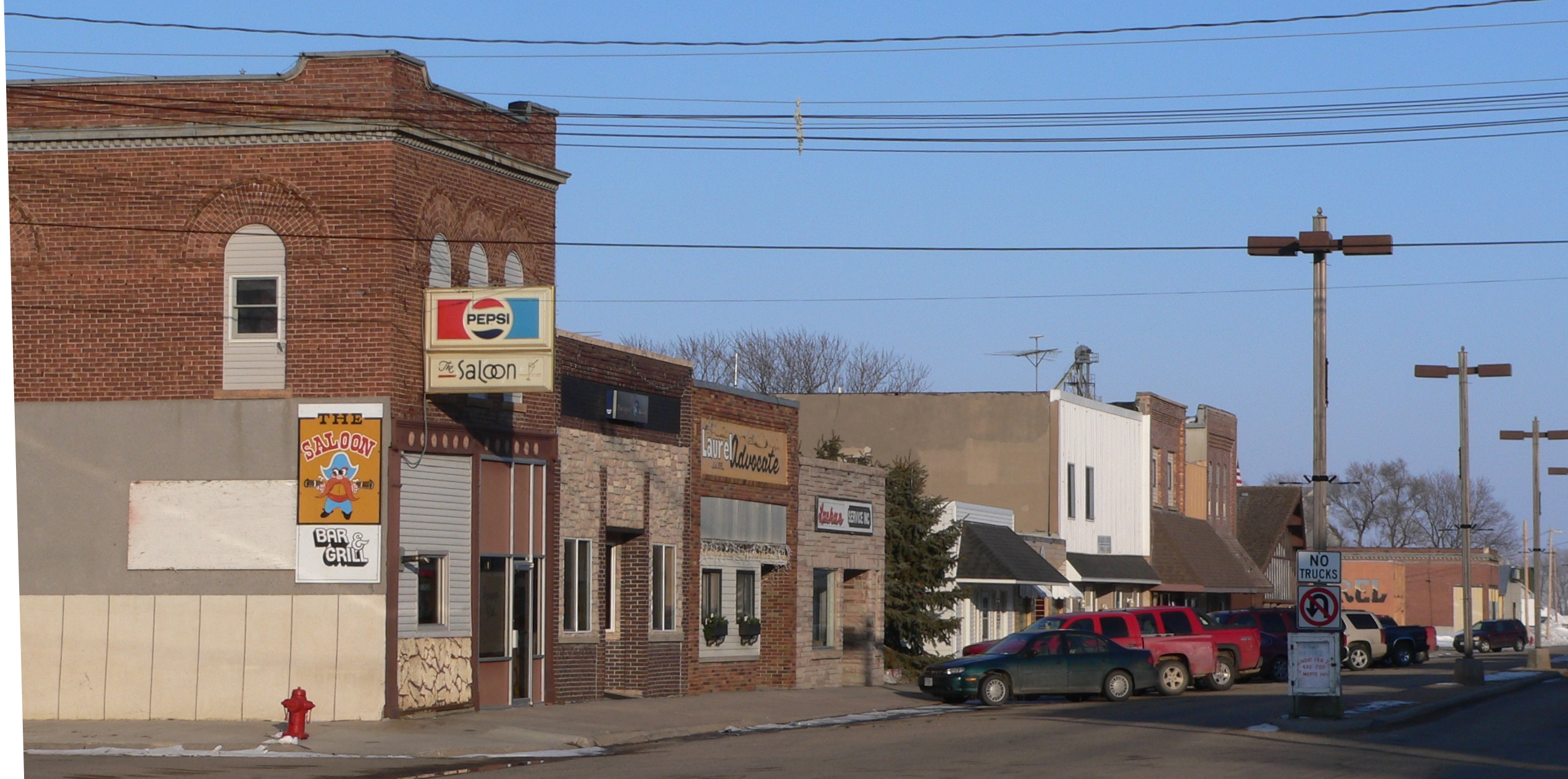 Downtown Laurel, Nebraska: Second Street east of Elm Street.